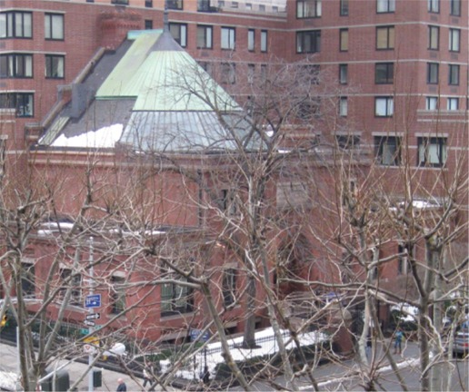 William J. Syms Operating Theater of Charles McBurney (surgeon) at Roosevelt Hospital, 59th Street & Ninth Avenue, New York